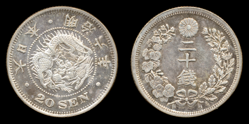 20sen-M6